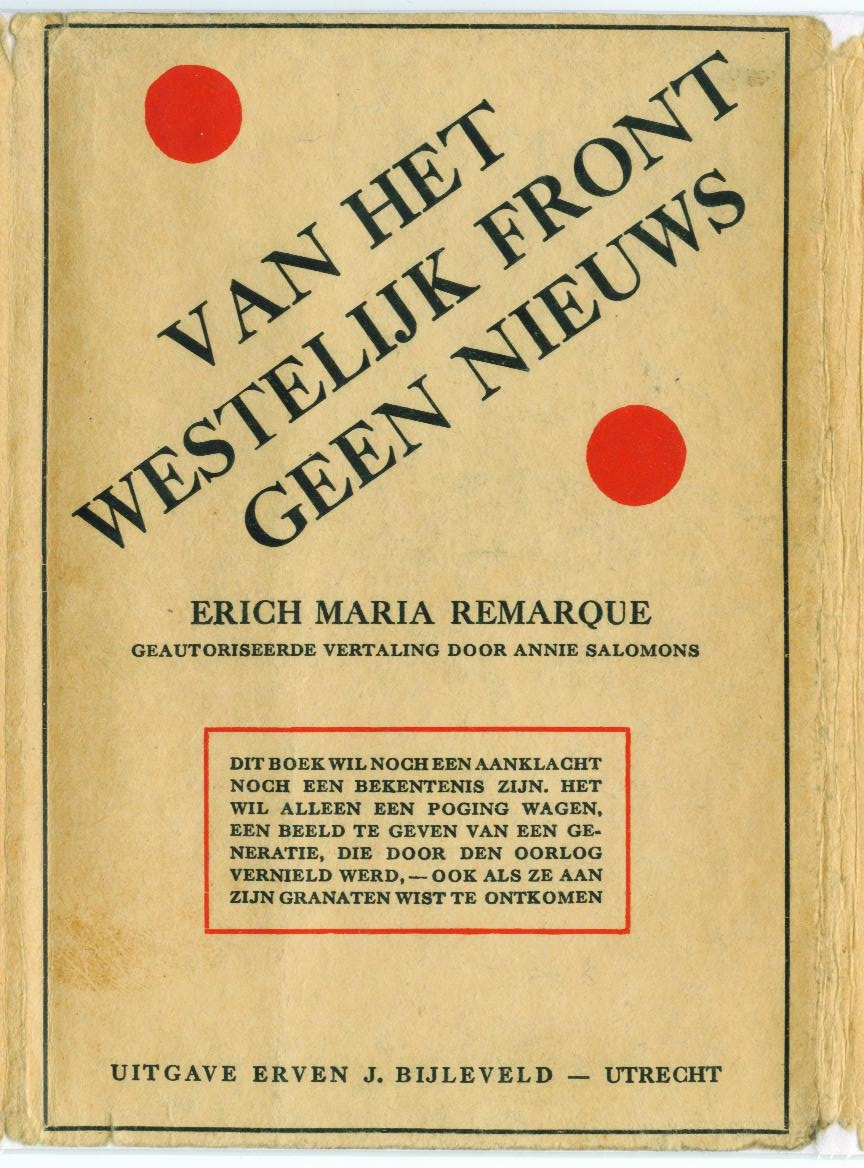 Dustjacket first Dutch edition All Quiet on the Western Front 1929